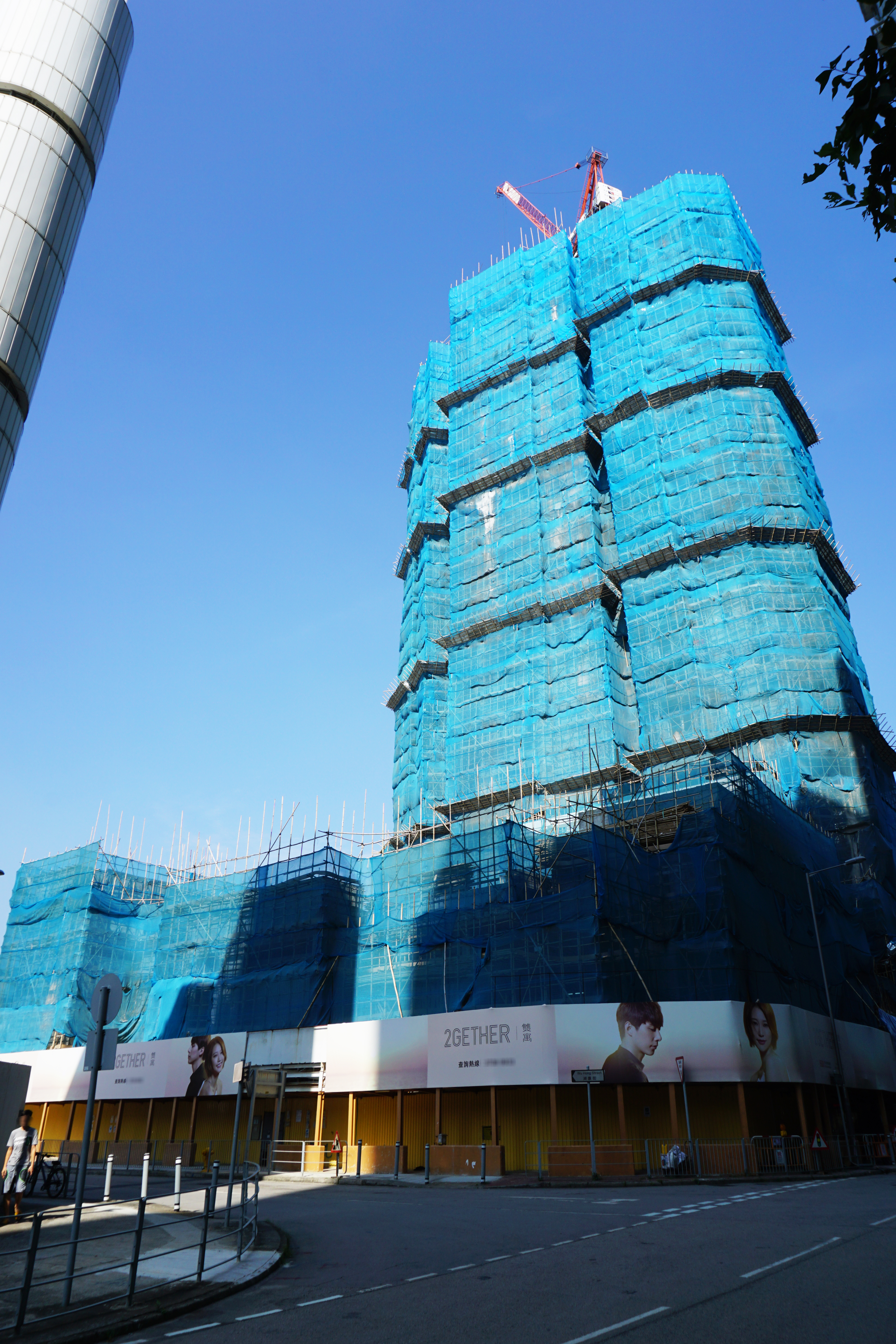 2gether in Tuen Mun, Hong Kong.